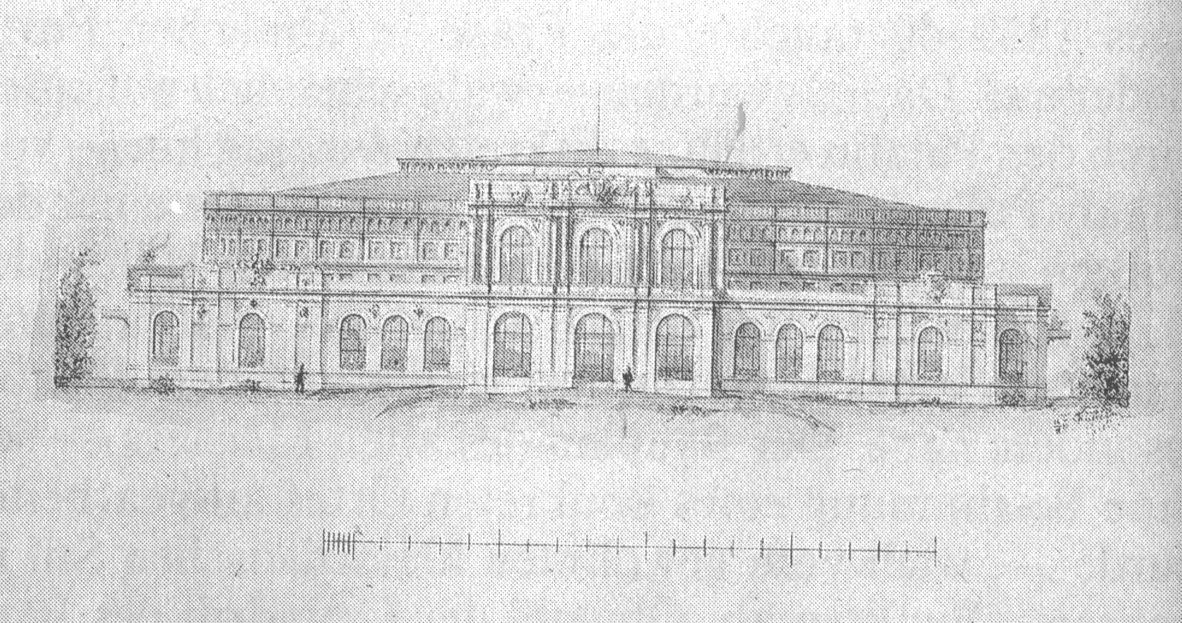 Ferenc Wieser: Project for a Hungarian Parliament 1861